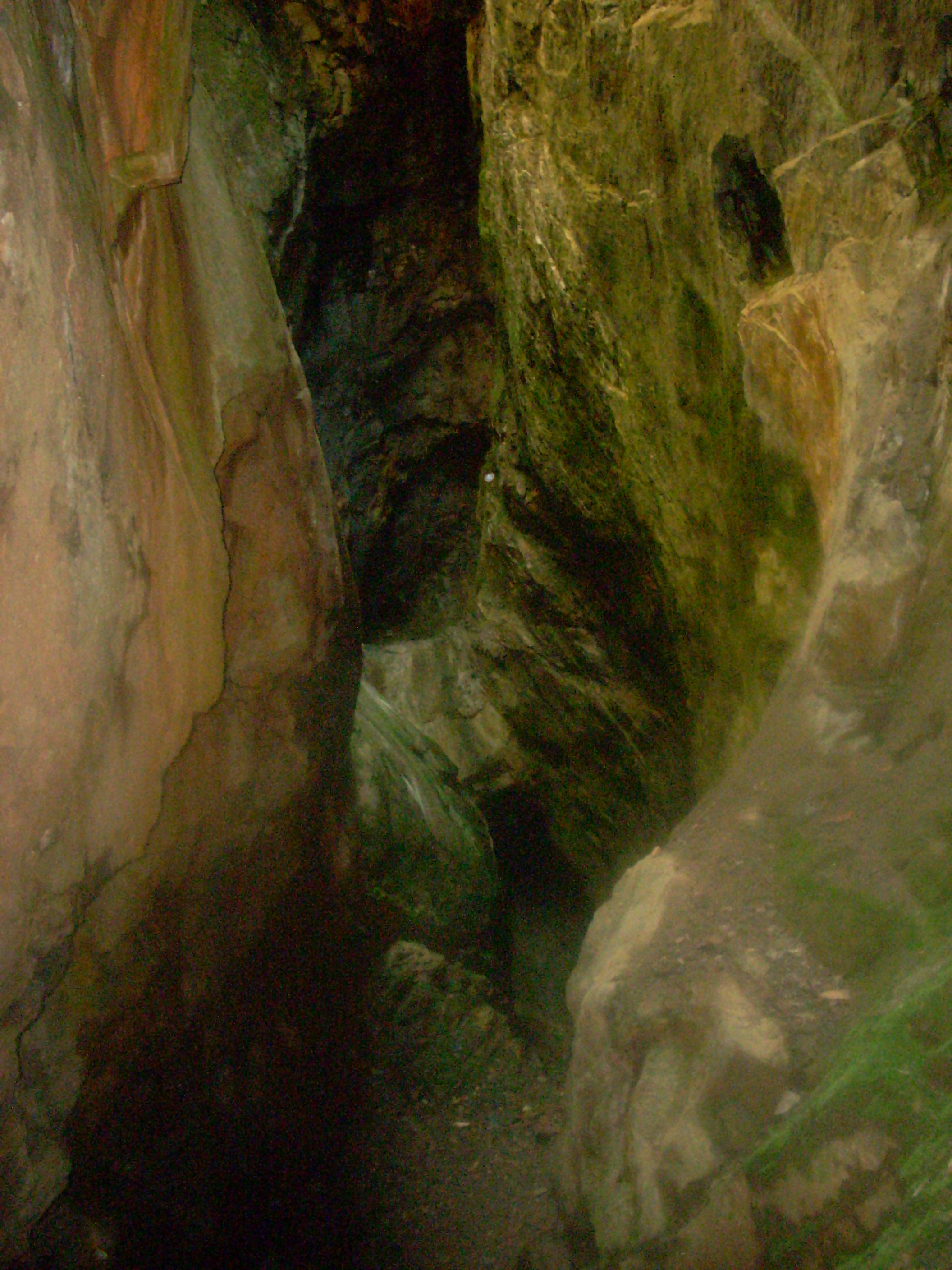 Consolidated Gold Mine, Glory Hole, Dahlonega (Lumpin County, Georgia)